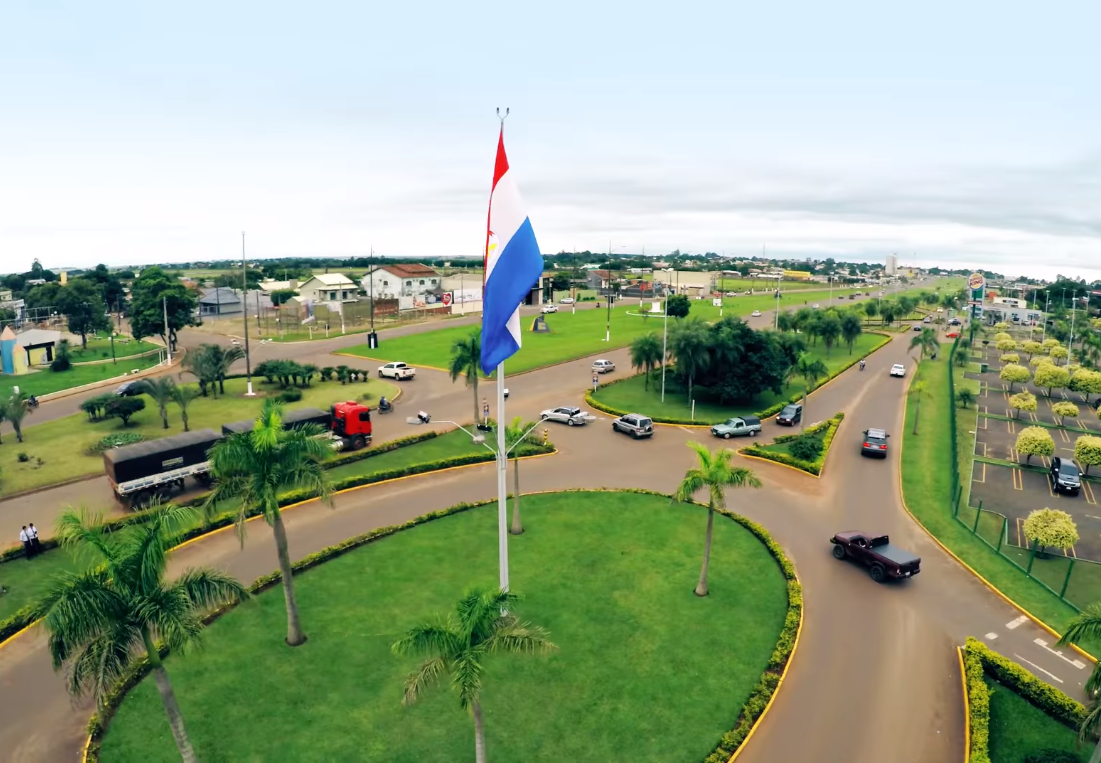 International Avenue that divides Pedro Juan Caballero (Paraguay) and Ponta Porá (Brazil)